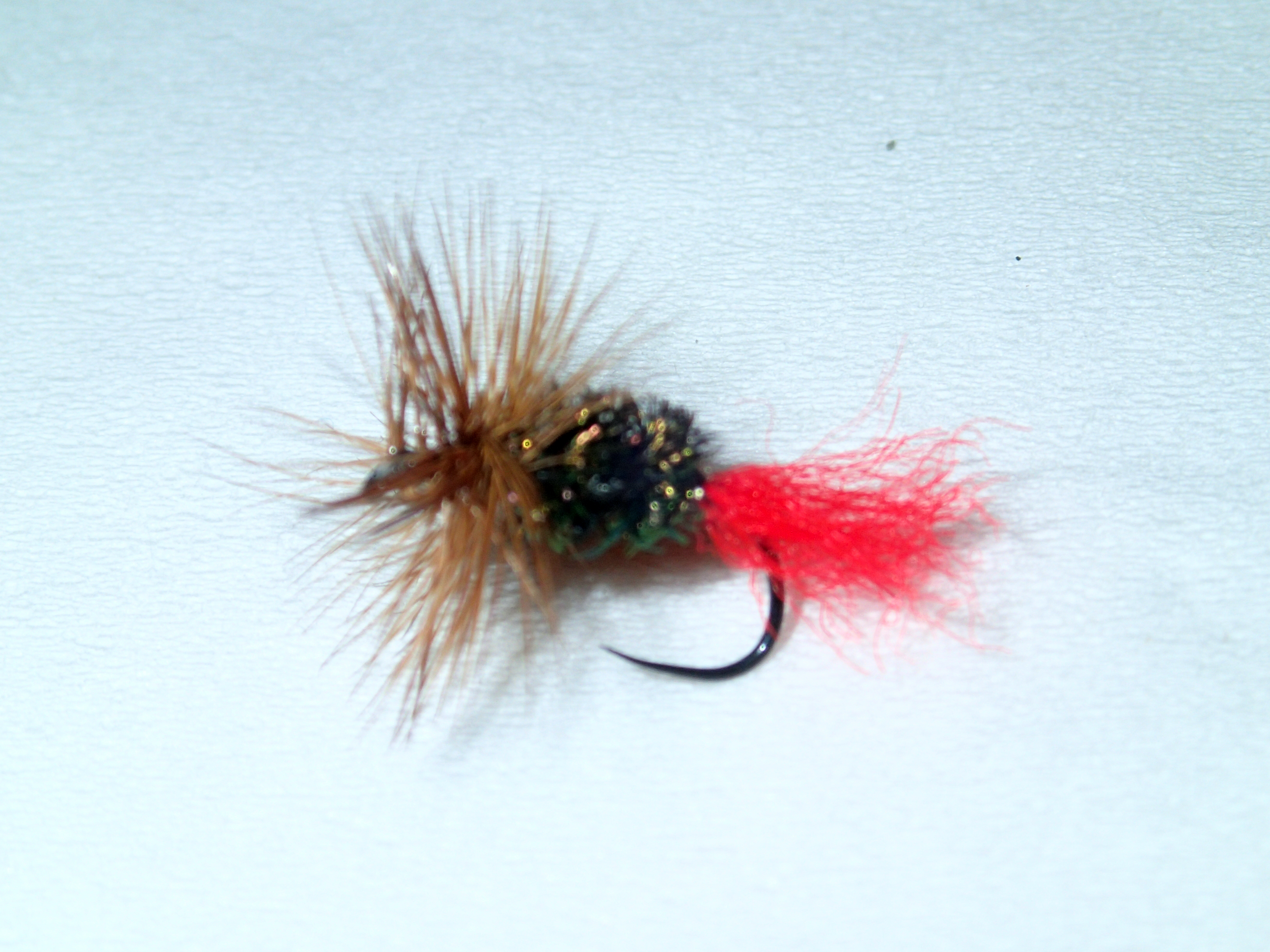 Red Tag Trout Fly, Dry